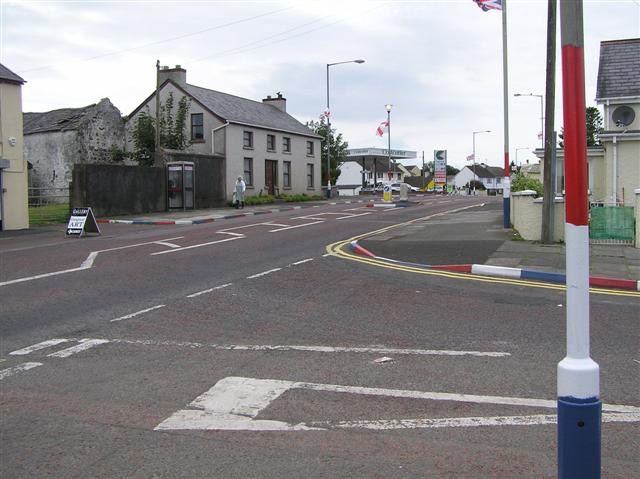 Articlave. The kerbs have been painted for the "twelfth"